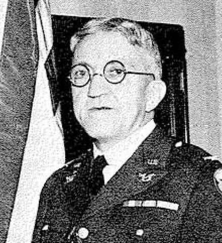 United States. Army. Judge Advocate General's Corps.